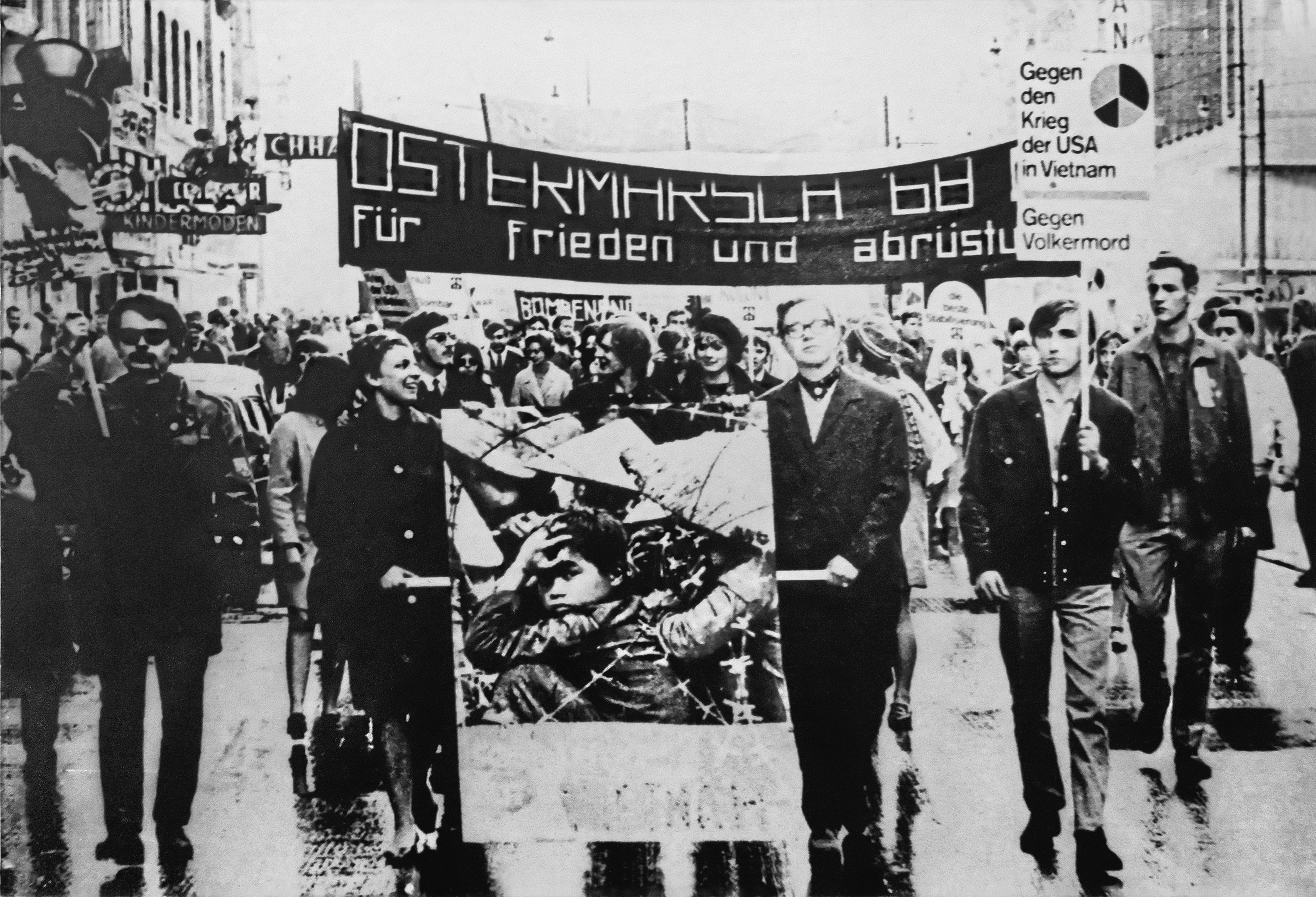 Vietnam War protests 1968 in Vienna, Austria. Picture taken in the War Remnants Museum (Vietnamese: Bảo tàng chứng tích chiến tranh) at 28 Vo Van Tan, in District 3, Ho Chi Minh City (Saigon), Vietnam